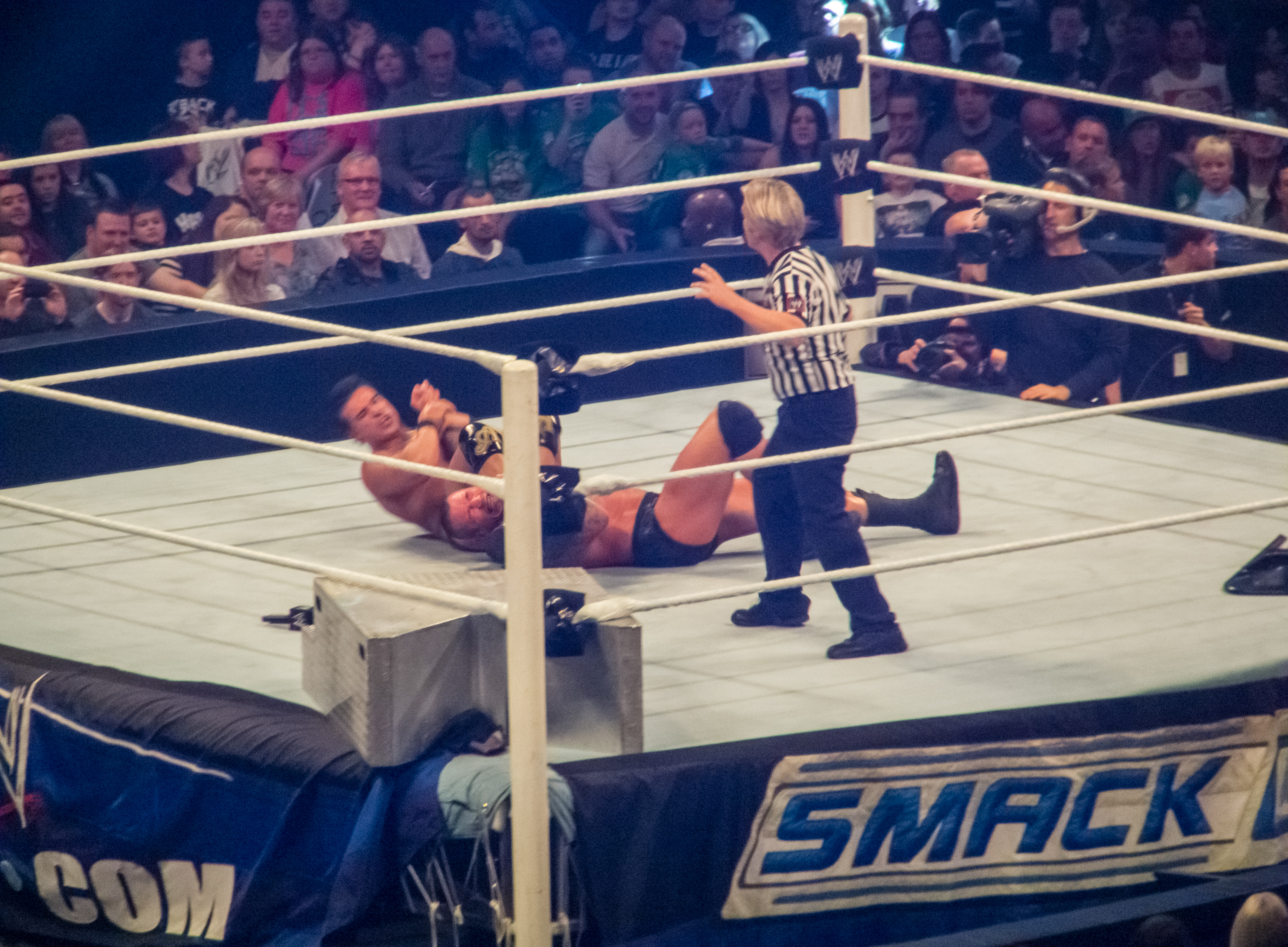 Alberto Del Rio executes the Cross Armbreaker on Randy Orton, November 2012